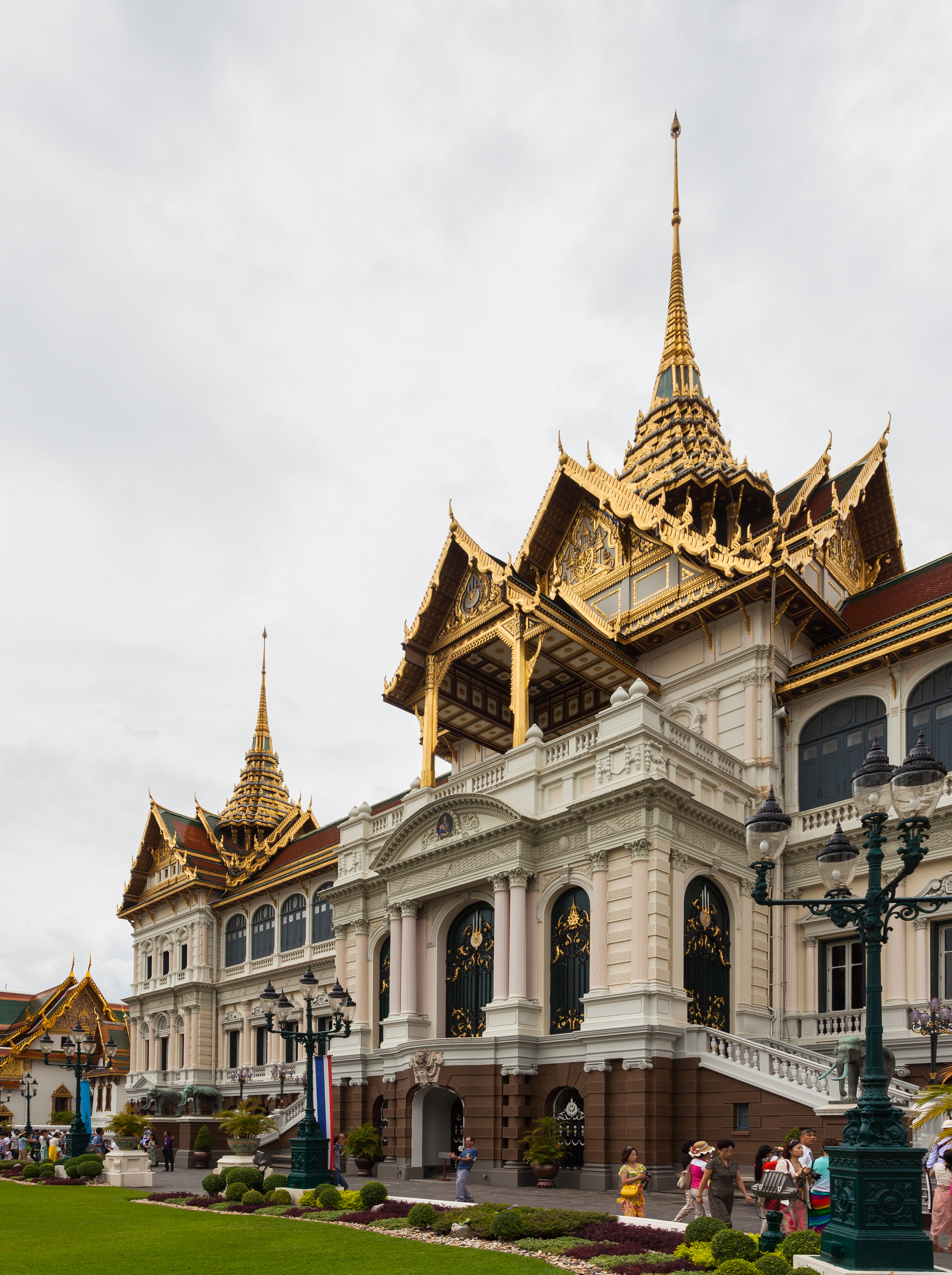 Gradn Palace, Bangkok, Thailand